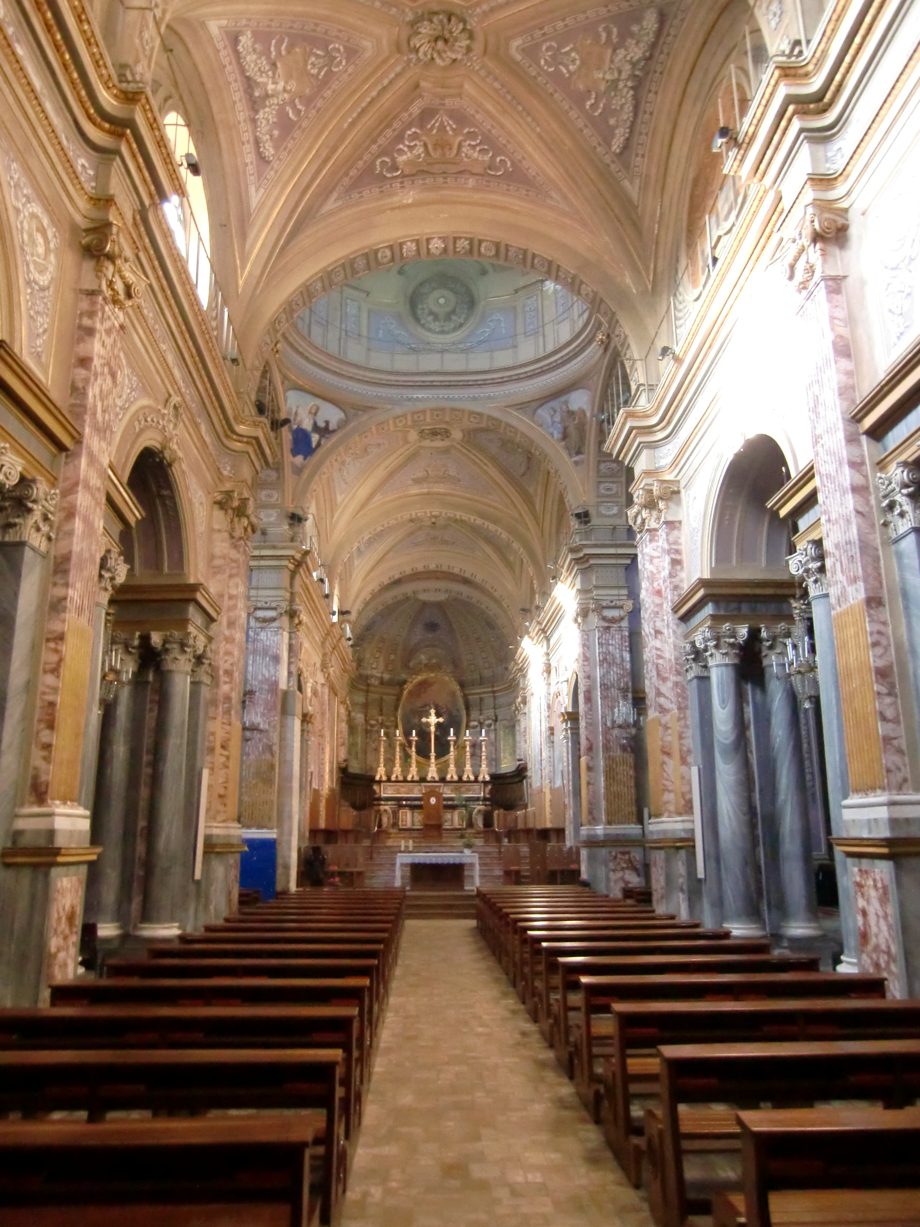 Ivrea, Cathedral, interior view